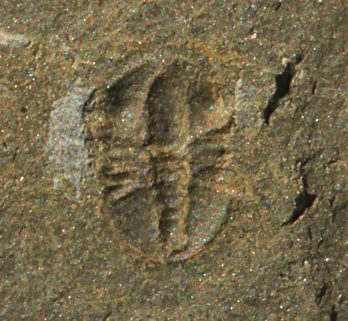 trilobite Pagetia taijiangensis, 3mm, from Kaili, Guizhou, China, early Middle Cambrian